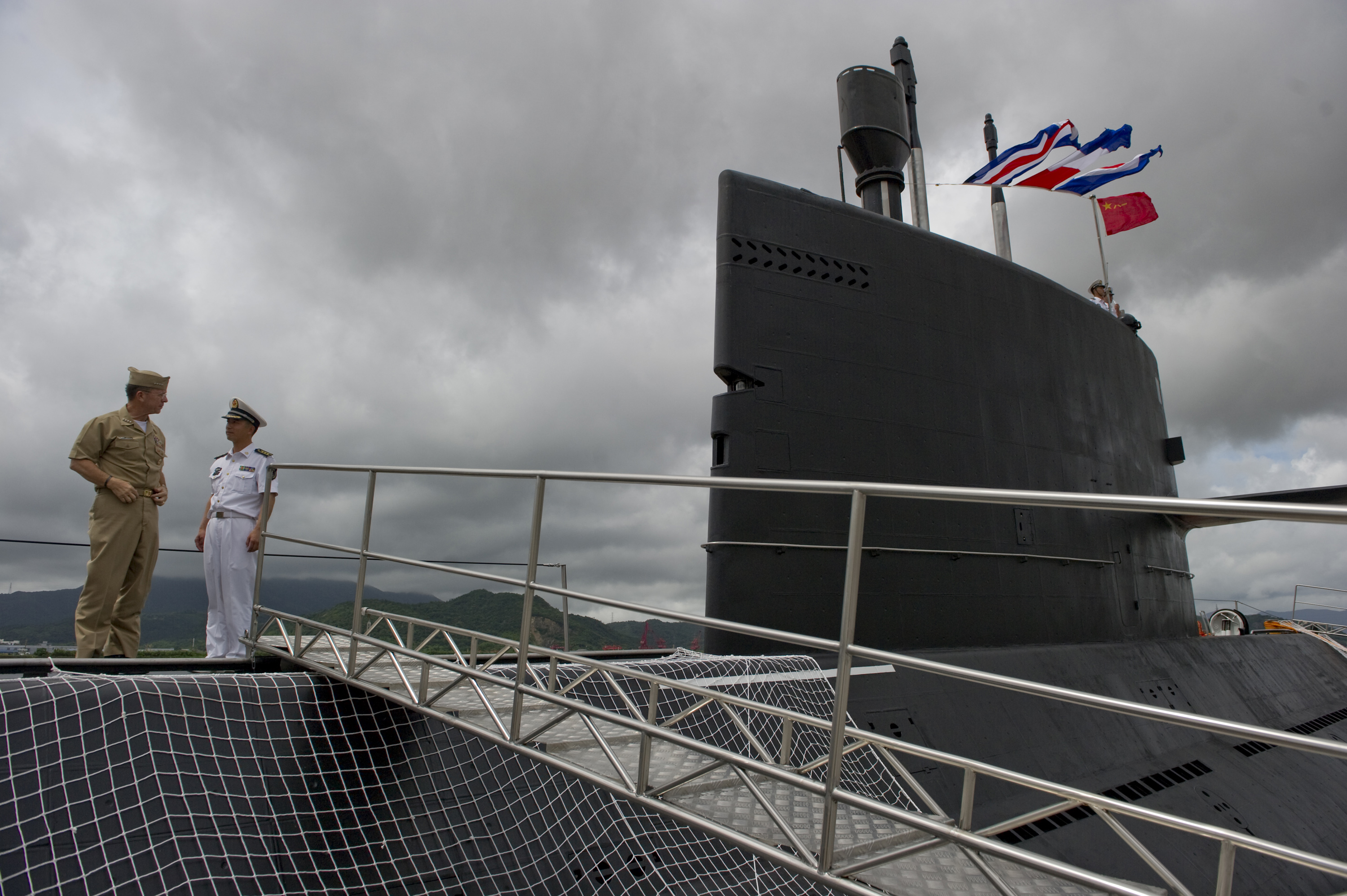 110713-N-TT977-091 Chairman of the Joint Chiefs of Staff Adm. Mike Mullen visits the Chinese People's Liberation Army-Navy submarine Yuan at the Zhoushan Naval Base in China on July 13, 2011. Mullen wrapped up a three-day trip to the country and now is in-route to Korea to participate in the U.S. Forces-Korea change of command and meet with counterparts and leadership. (DoD photo by Mass Communication Specialist 1st Class Chad J. McNeeley/Released)